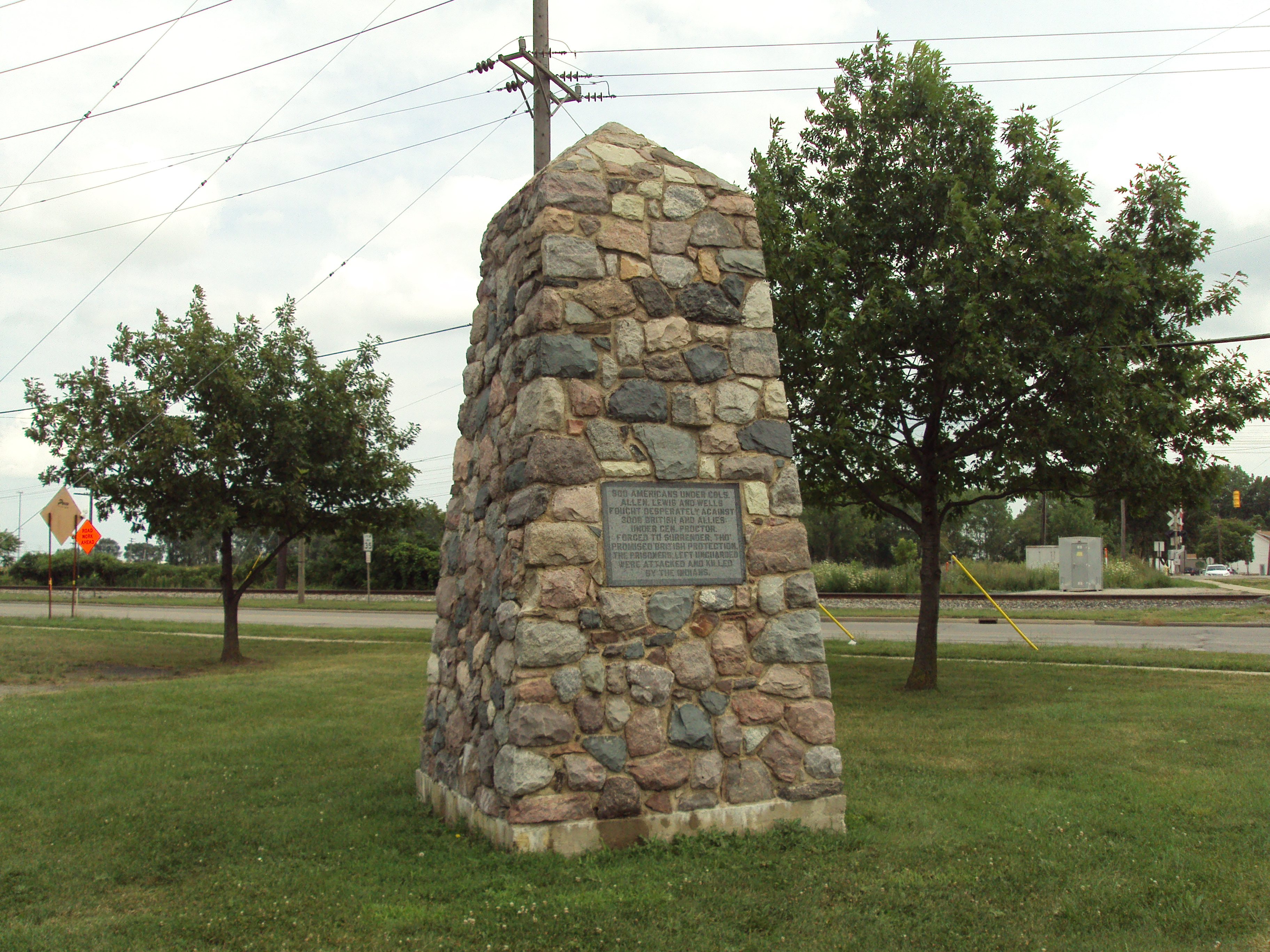 Obelisk commemorating the Battle of Frenchtown, located at the corner of North Dixie Highway and East Elm Avenue